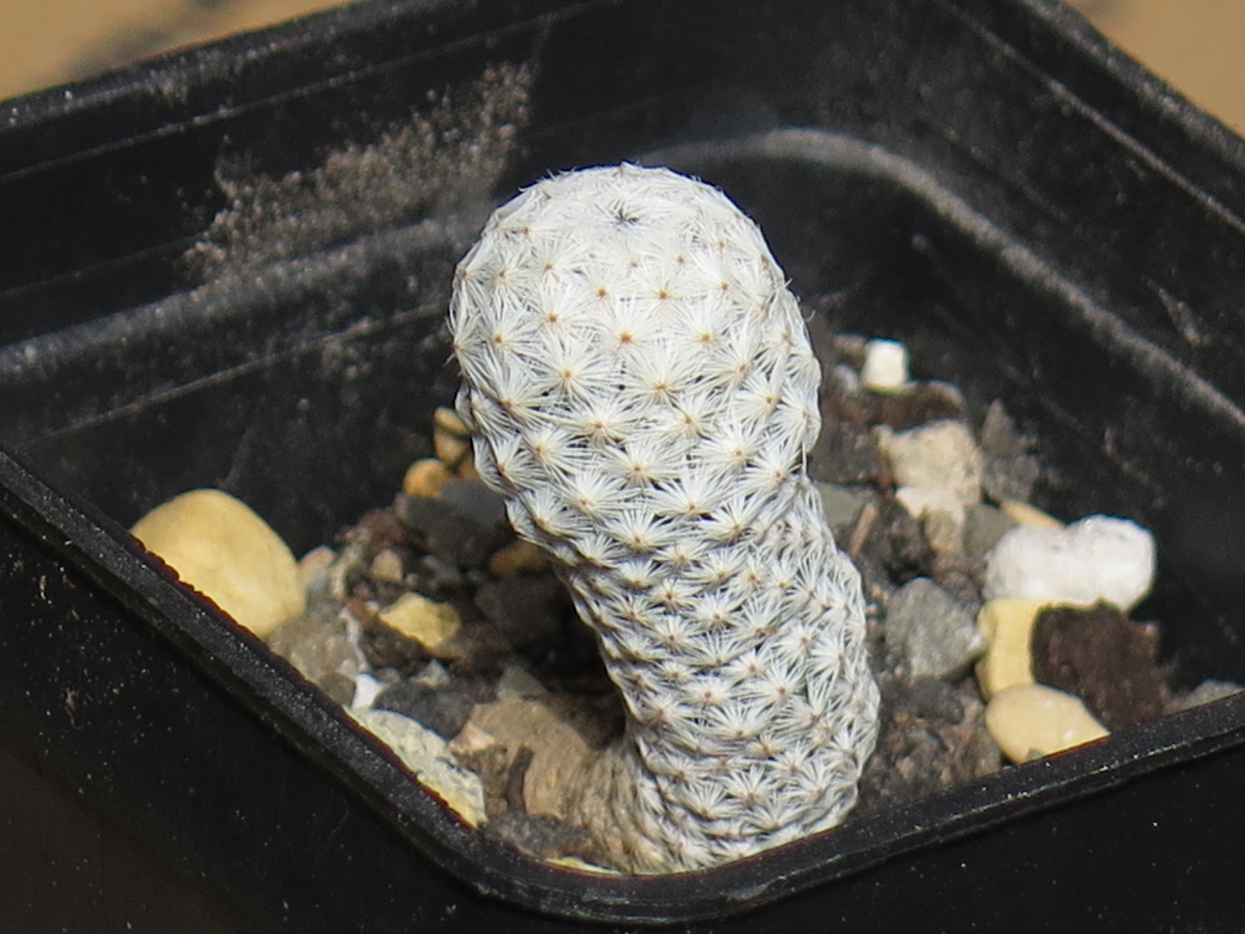 A small plant of mammillaria herreare v. albiflora (San Luis de la Paz, Guanajuato)